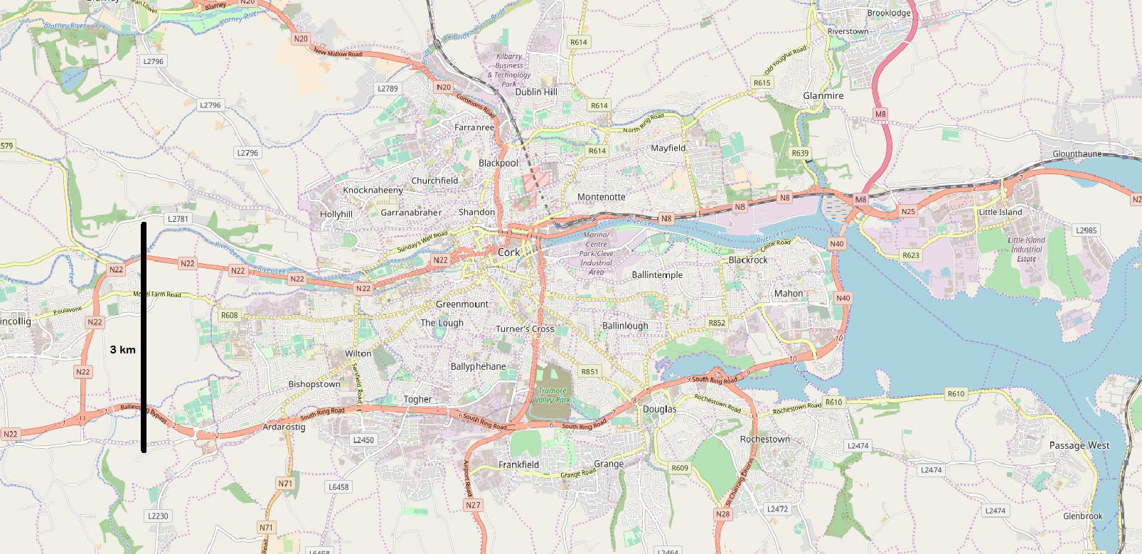 Map of Cork City This map may be incomplete, and may contain errors. Don't rely solely on it for navigation.